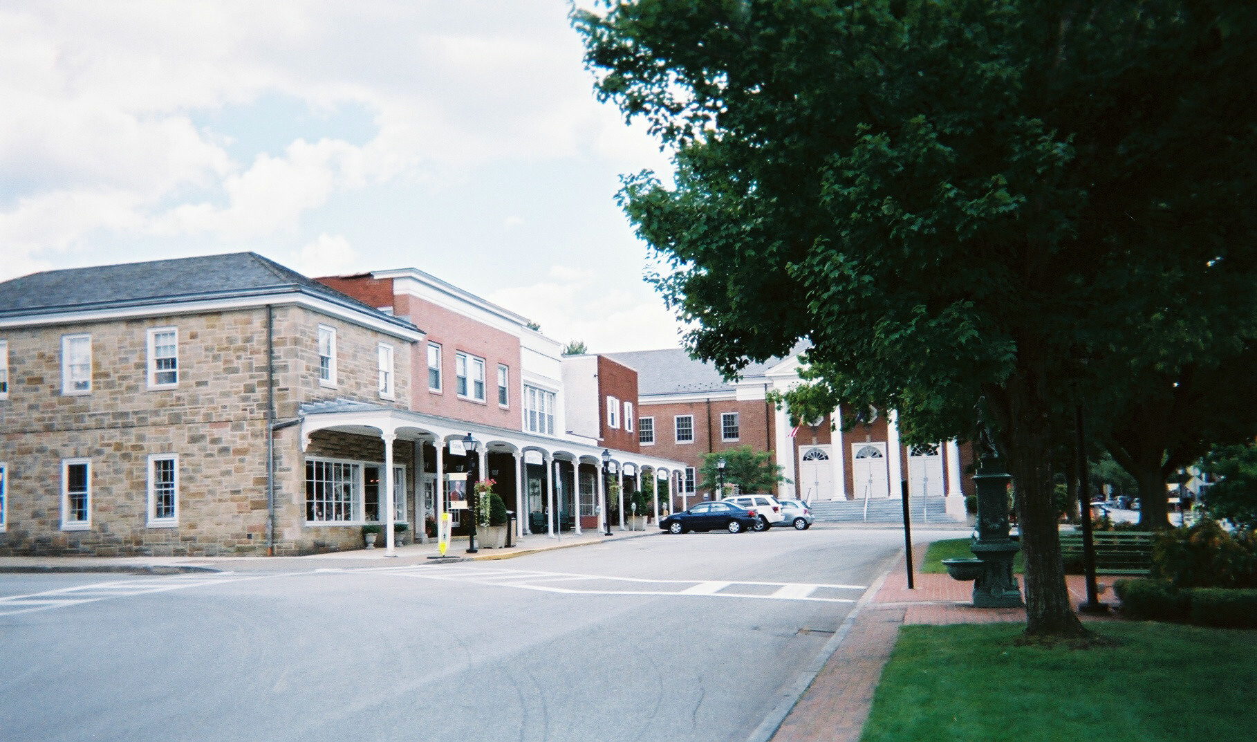 Business district of Ligonier, Pennsylvania. Photo taken on the north side of the town square, with Town Hall in background.